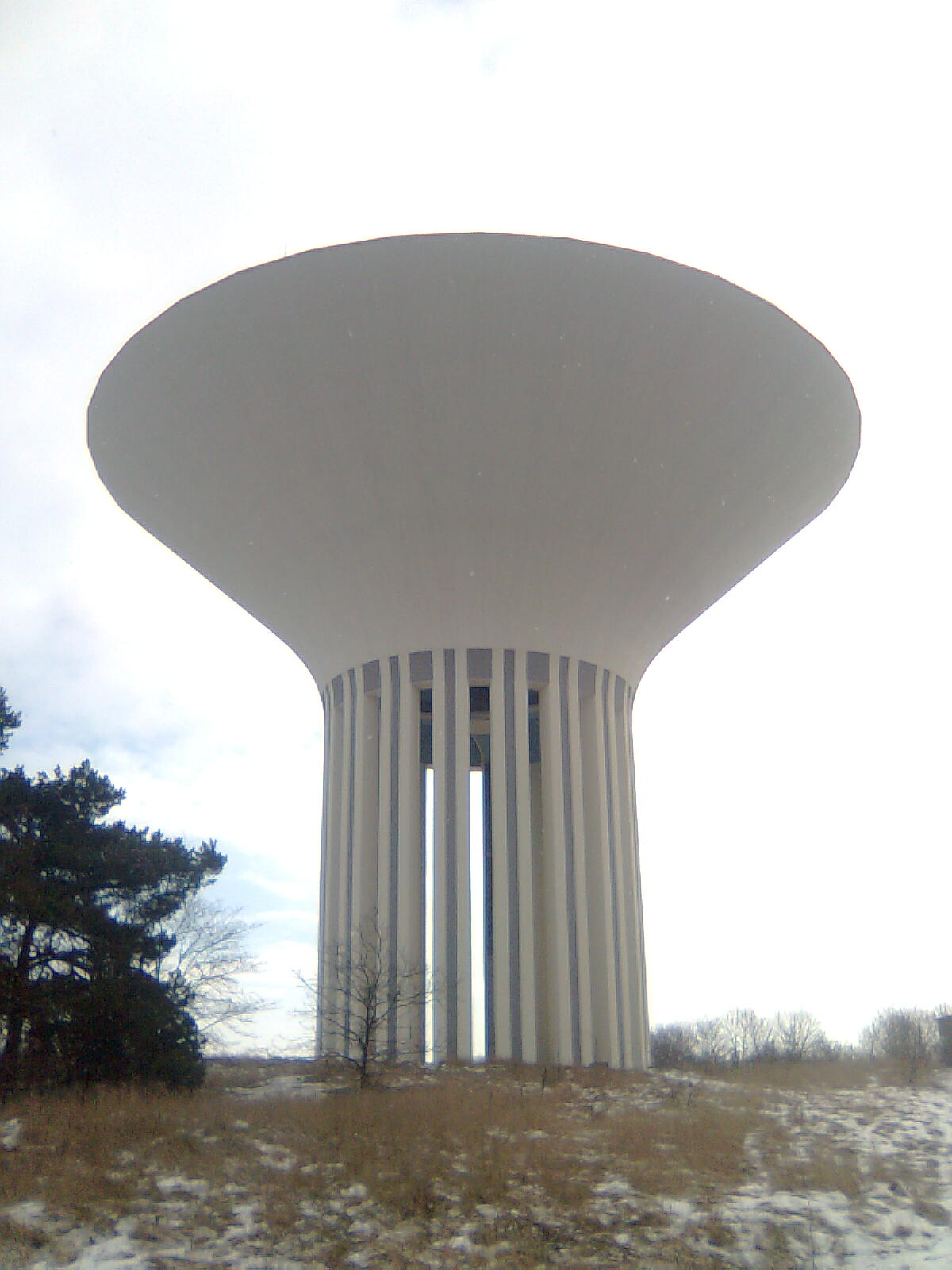 With a maximum volume of 17–18 million liters of water this is the biggest of four water towers in Uppsala, Sweden. It was designed by architect Hans Trygg and was erected 1968–1970.